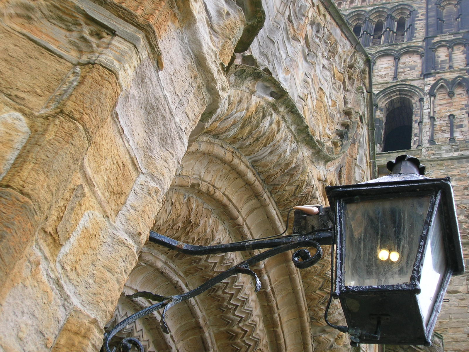 Durham cathedral